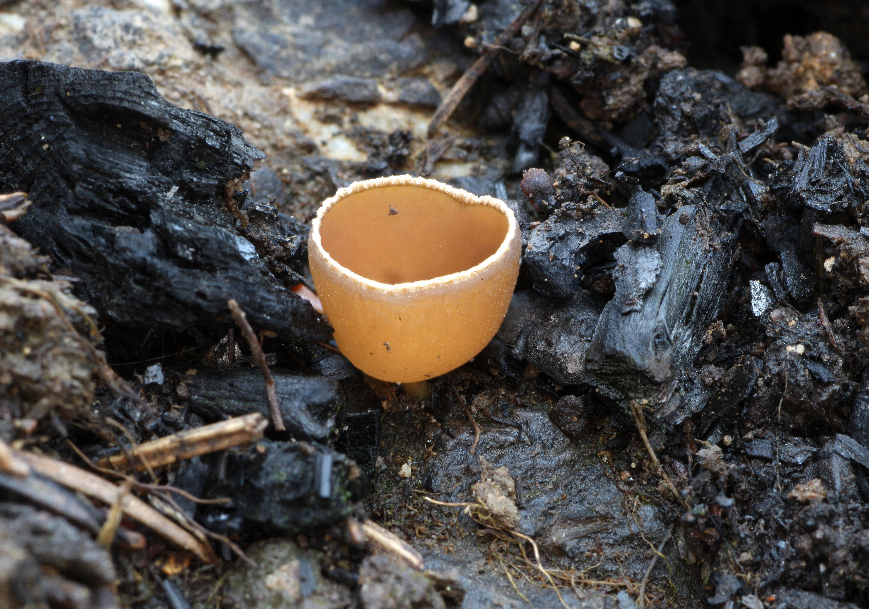 Geopyxis carbonaria, Family: Pyronemataceae, Location: Germany, Oberstdorf